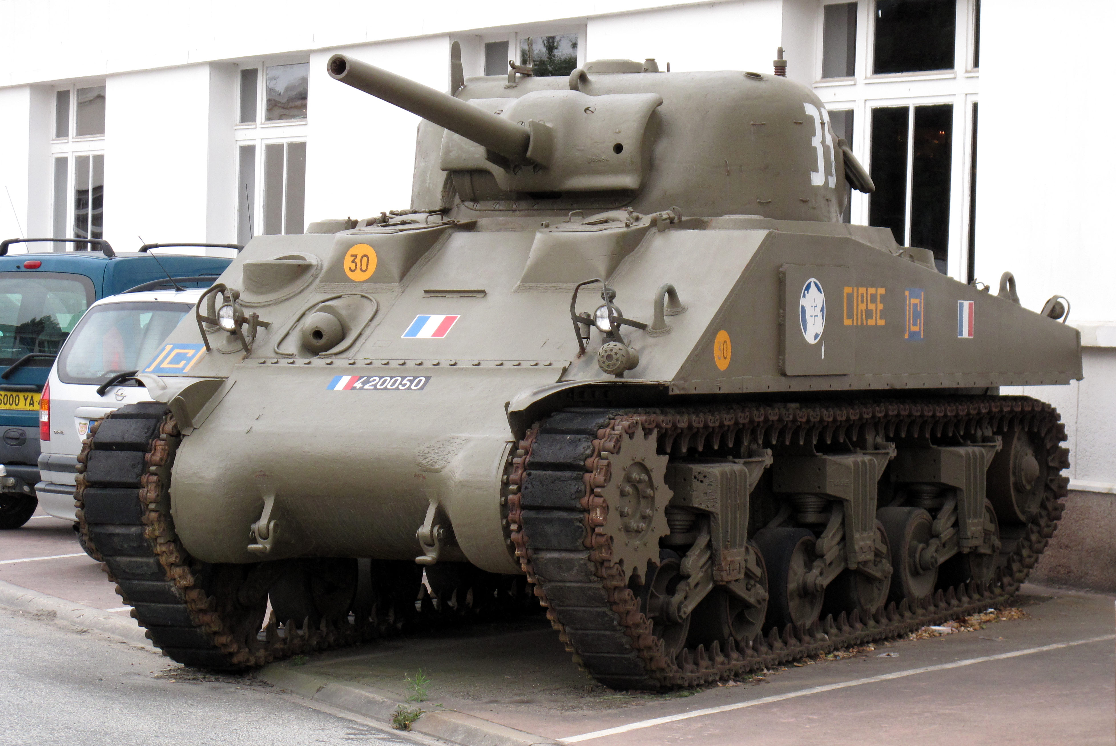 M4 Sherman tank. On display at Saumur Général Estienne museum.